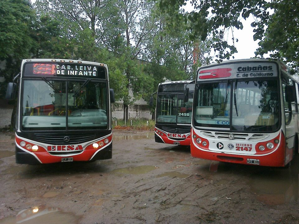 Several models of collectives of line 3.